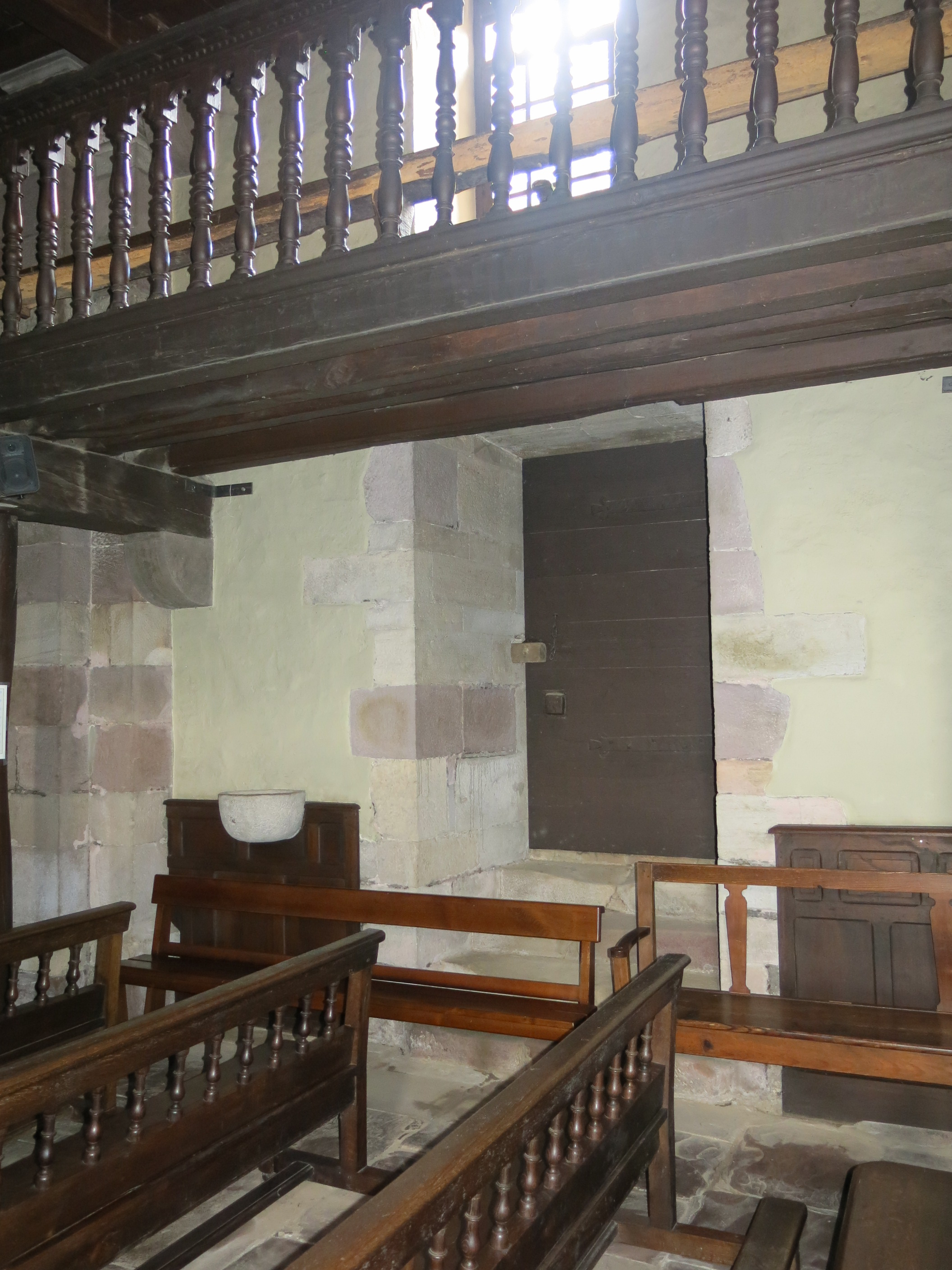 Church Saint-Étienne-de-Baïgorry - Door of the cagots, inside (Pyrénées-Atlantiques, France).